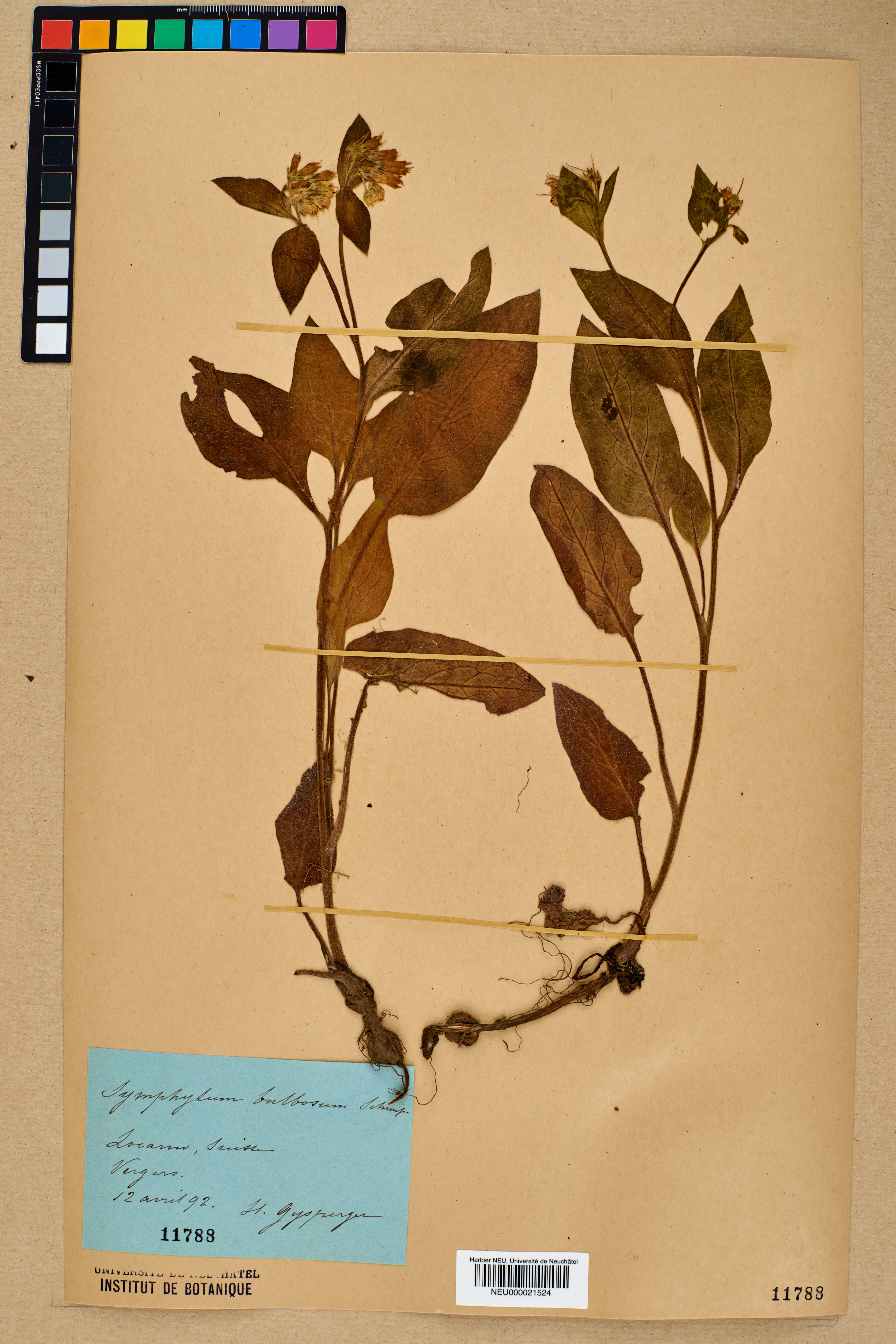 Dried pressed specimen of Symphytum bulbosum